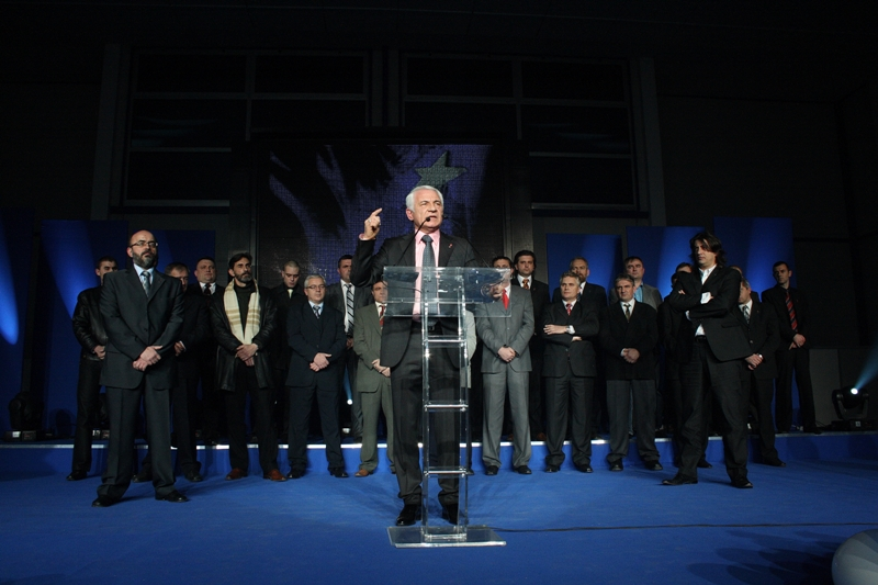 Together for Kragujevac Veroljub Srevanovic